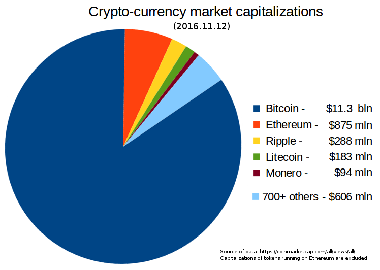 Crypto-currency market capitalizations as of 2016.11.12. Source of data. To avoid double-counting of Ethereum, capitalization of tokens running on Ethereum are excluded